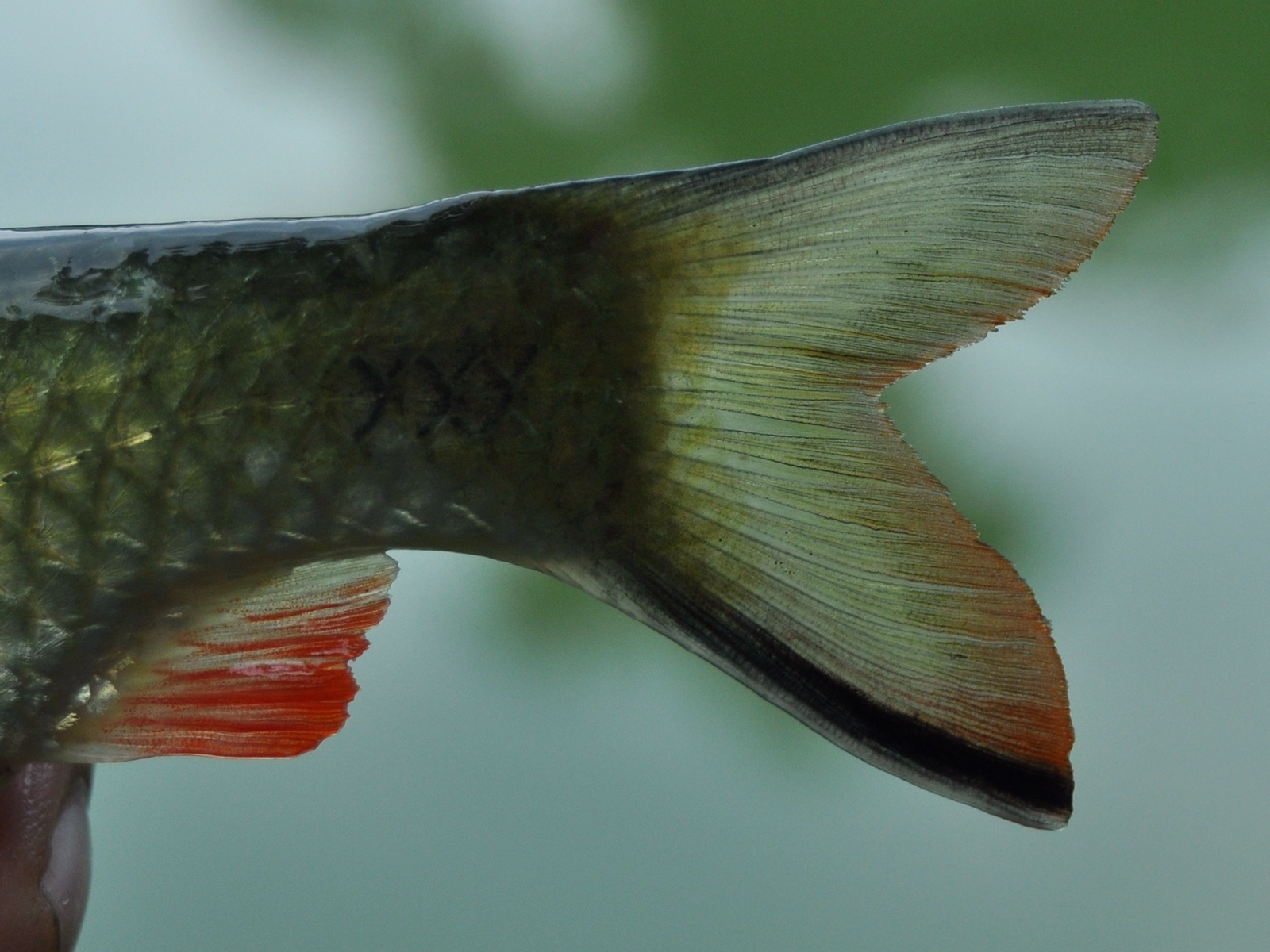 Javaen barb (Puntius orphoides), 132 mm SL; from Tasikmalaya, West Java, Indonesia. Tail and anal region.